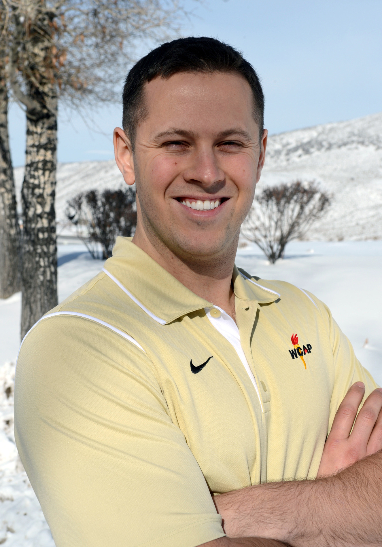 Sgt. Matt Mortensen of the U.S. Army World Class Athlete Program will compete in luge doubles for Team USA at the 2014 Olympic Winter Games in Sochi, Russia. U.S. Army photo by Tim Hipps, IMCOM Public Affairs